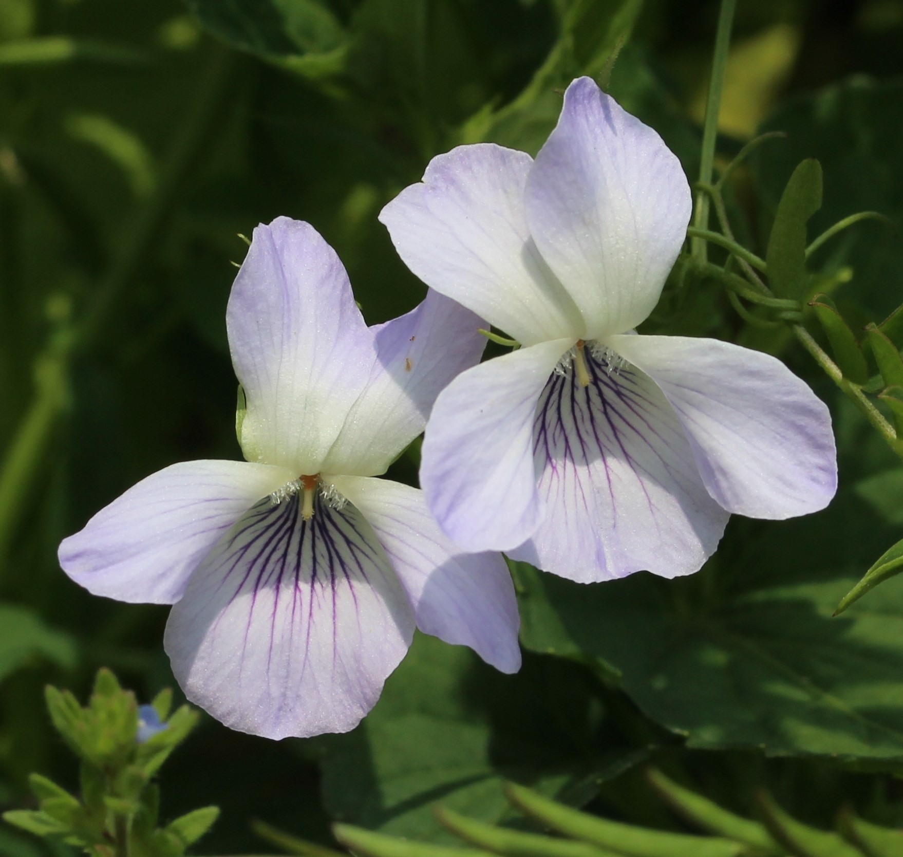 Viola acuminata in Mount Ibuki, Maibara, Shiga Prefecture, Japan.